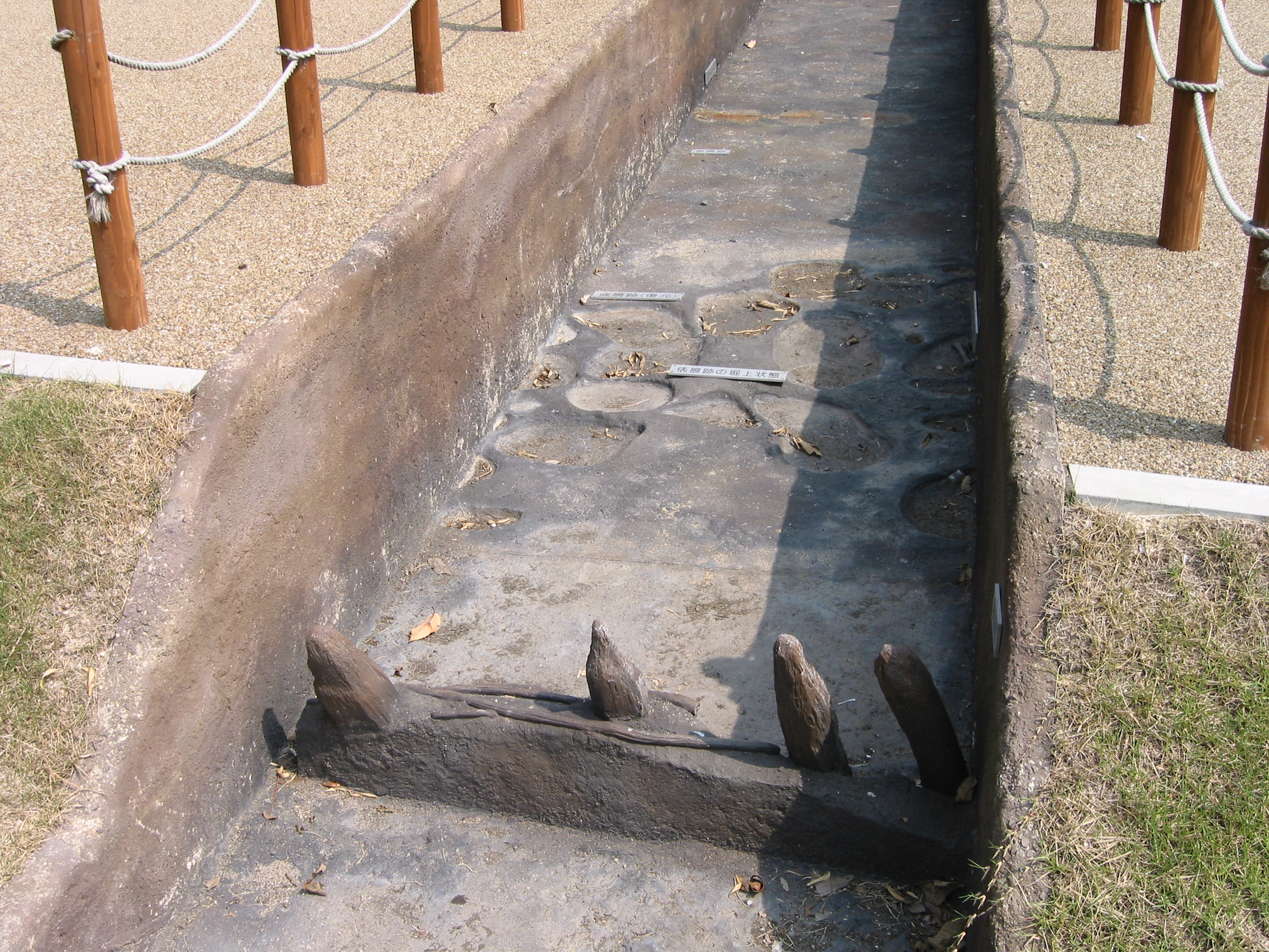 photo of Kawazugahana embankment base(Japan's national designated historical site).Hashiba Hideyoshi(Toyotomi Hideyoshi) leveed this embankment around Bitchū Takamatsu castle and the castle was attacked by the water attack in 1582.This is excavated embankment base.